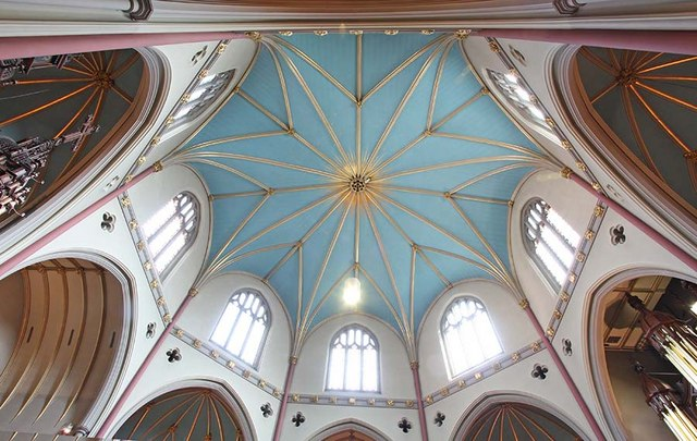 St Dunstan in the West, Fleet Street, London EC4, near to London, City of London, Great Britain.